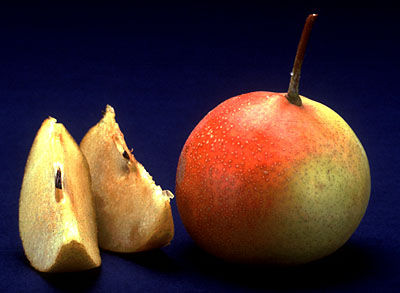 a picture of a shipova fruit